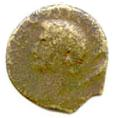 Roman coin found in the Moravac region (Serbia).